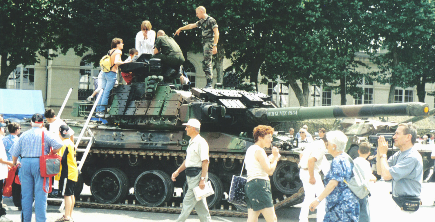 A French AMX 30B2 Brennus tank at Saumur